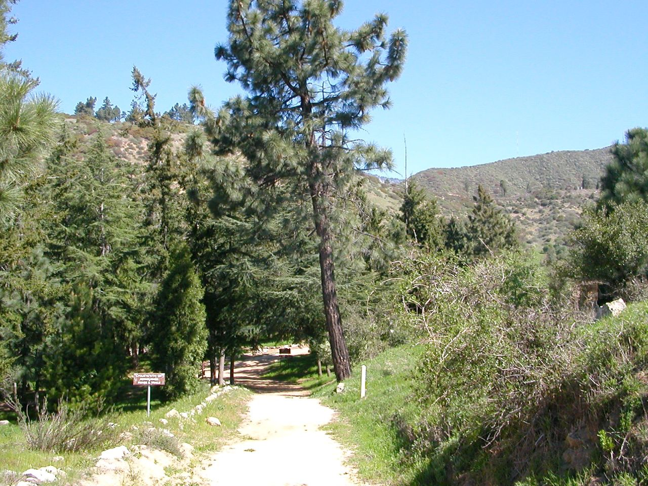 Entrance trail to Henninger Flats — San Gabriel Mountains, Los Angeles County, California.